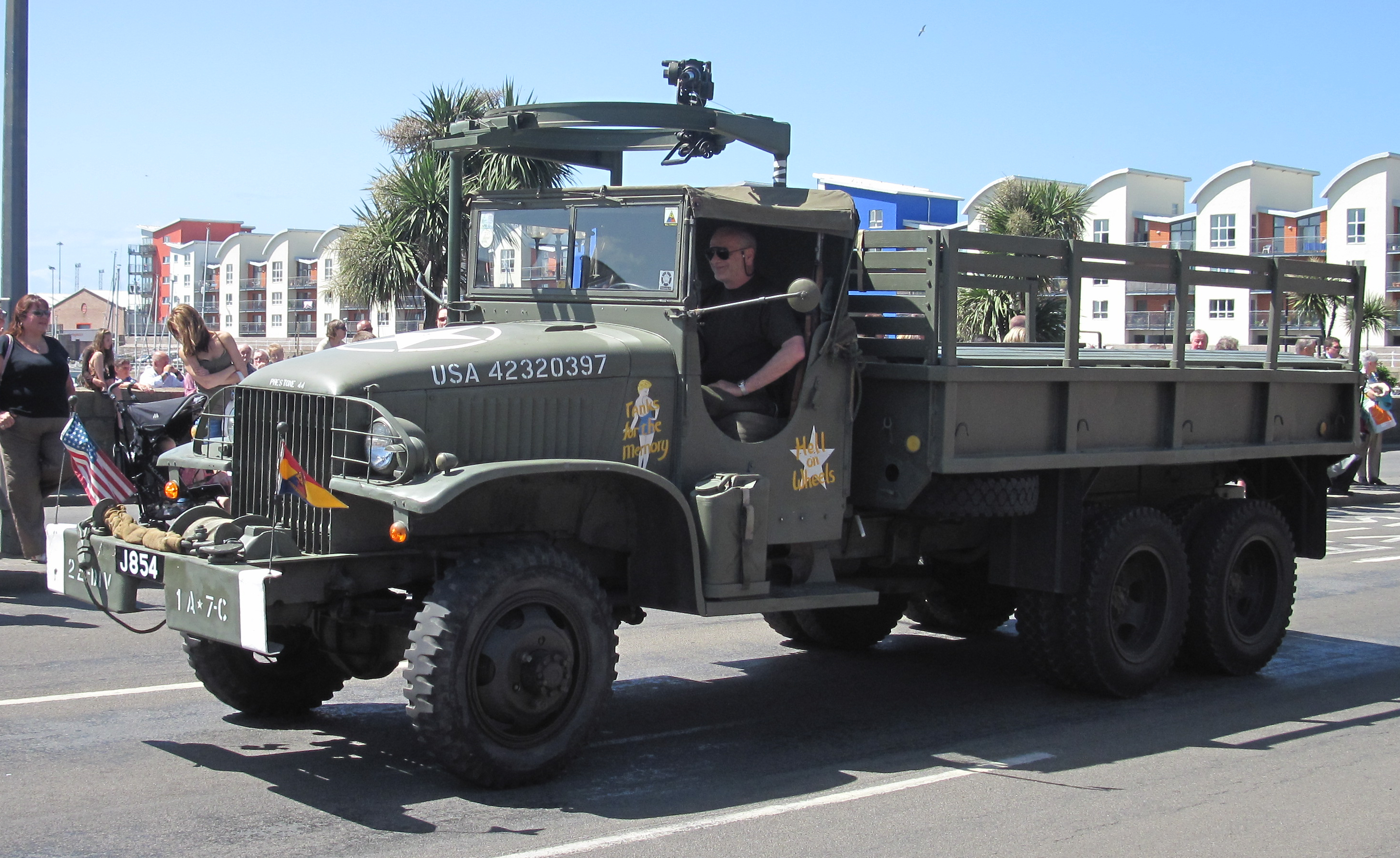 Liberation Day celebrations in Jersey 2011